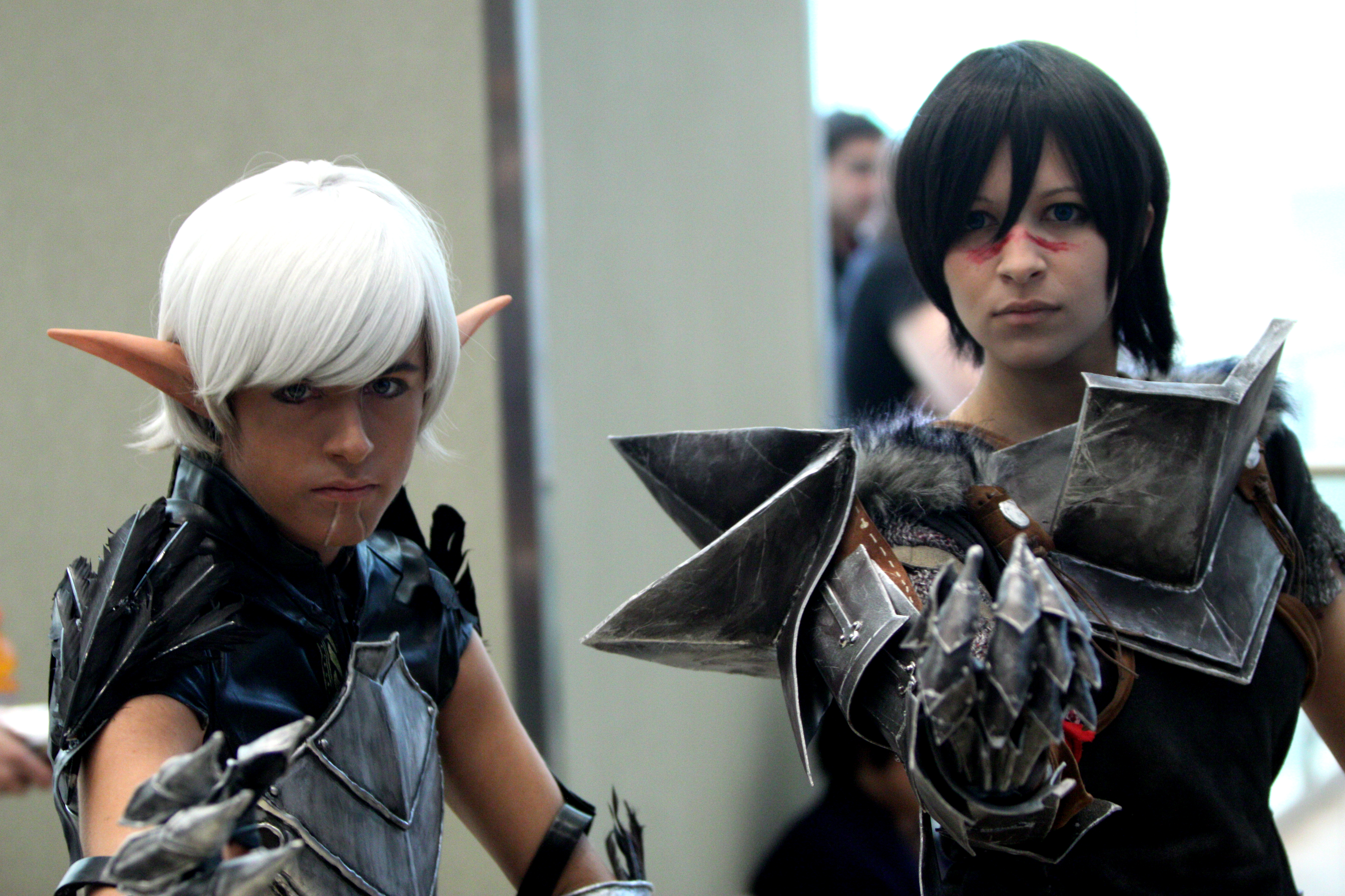 Fenris and Lady Hawke, of Dragon Age II, cosplayers at the Phoenix Comicon in Phoenix, Arizona.